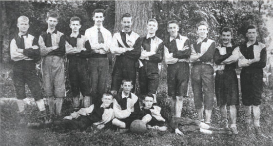 SC Germânia (today: EC Pinheiros), Football Club, São Paulo, Brazil, with founder Hans Nobiling.